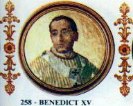 Portrait of Pope Benedict XV in the Basilica of Saint Paul Outseide the Walls, Rome